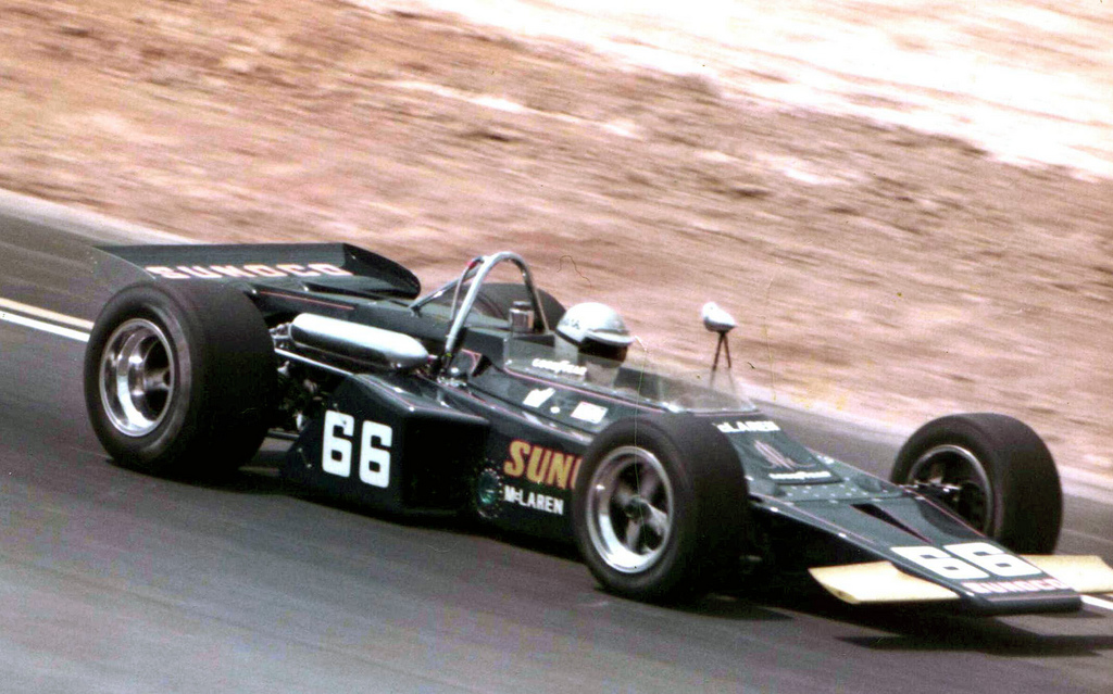 Mark Donohue racing at Pocono Raceway in 1971. He won.